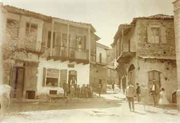 The square of village Stemnitsa- Arcadia, Greece